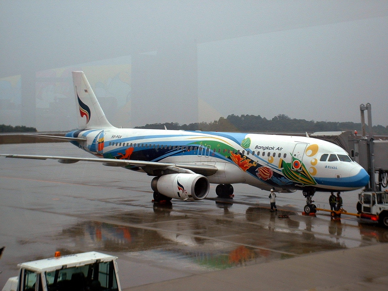 Bangkok Airways HS-PGV A320-200 at Hiroshima (Japan) Airport.2006年10月1日、日本の広島空港にて投稿者が撮影。Photographed by Carpkazu(Japanese)in October 1 2006.